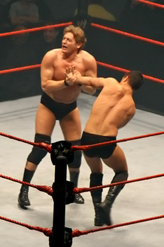 William Regal (Darren Matthews) applies a standing wrist lock to Cody Rhodes. Taken during the WWE Raw - Survivor Series Tour, at Rod Laver Arena, Melbourne Park, Melbourne, Australia. Regal wrestled Rhodes on the night; the match was won by Rhodes pinning Regal following a DDT.